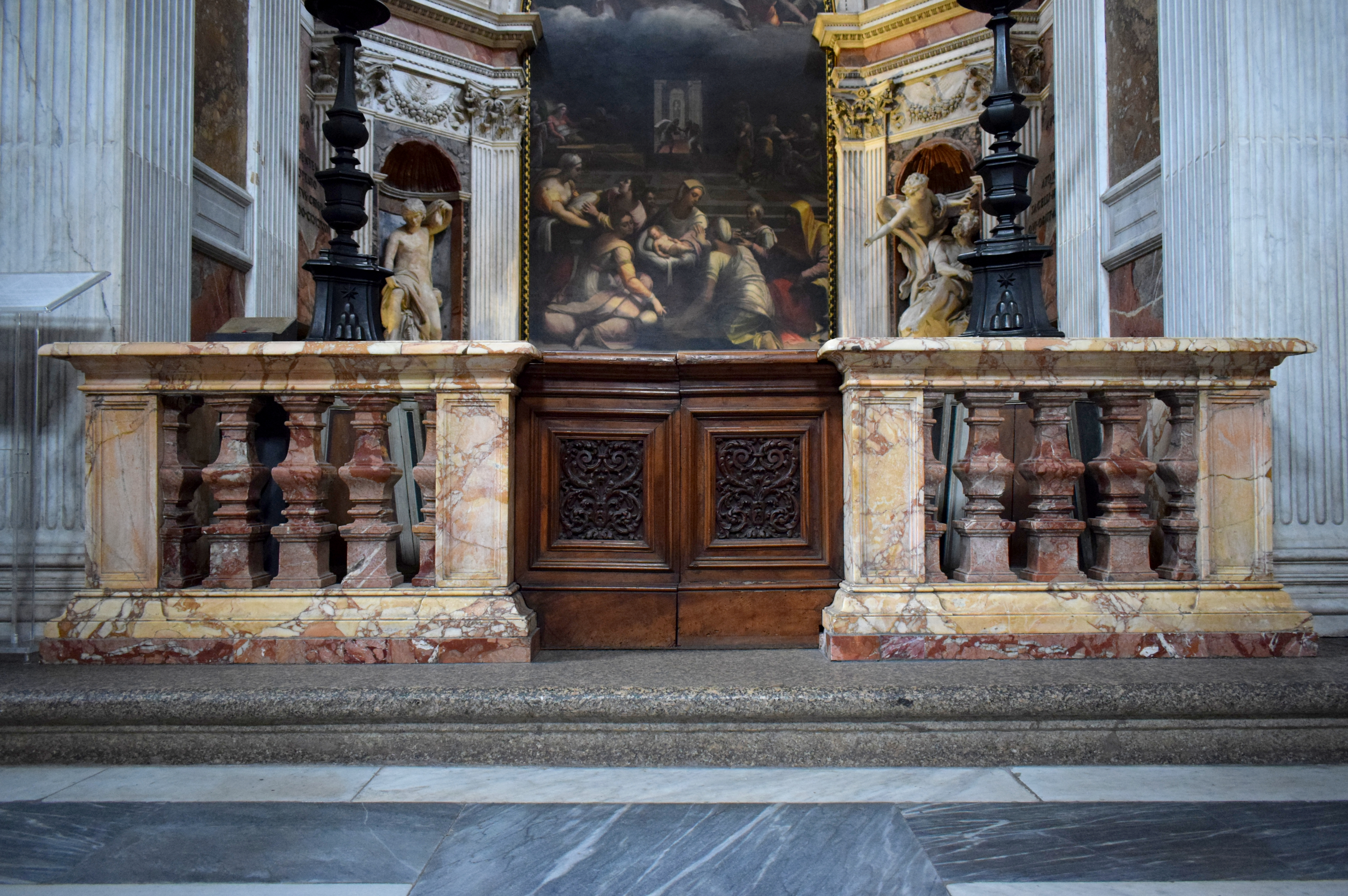 The balustrade of the Chigi Chapel in Santa Maria del Popolo with the monolith granite entrance step.